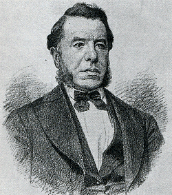 Portrait of Dutch historian Robert Fruin (1823-1899)